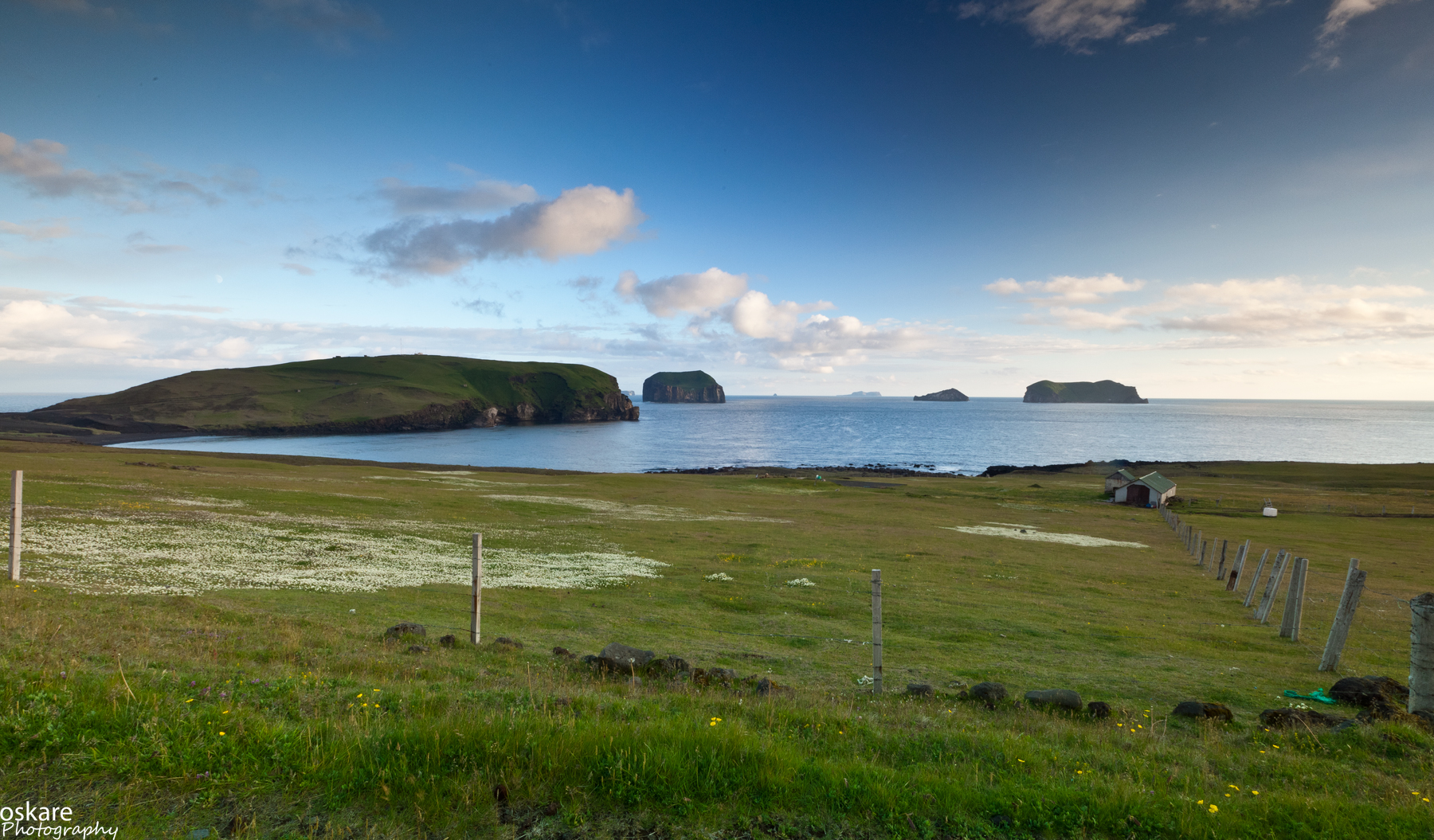 5D Mark II 16-35mm 2.8 L Lee Polarizer Lee 9nd Soft view large on black!